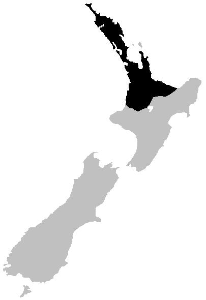 The distribution of the Green and Golden Bell Frog (Litoria aurea) in New Zealand.